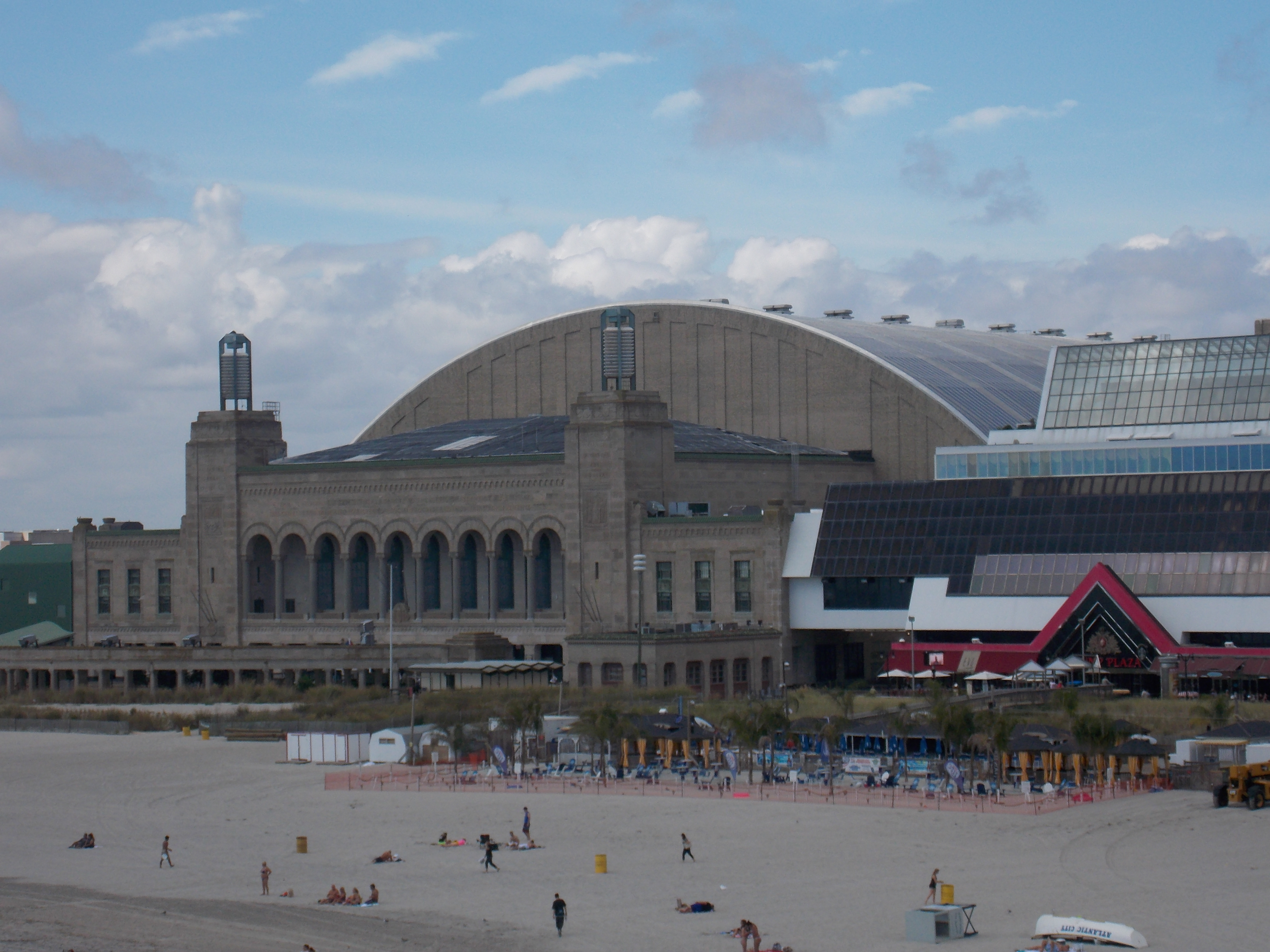 Boardwalk Hall in Atlantic City, New Jersey.